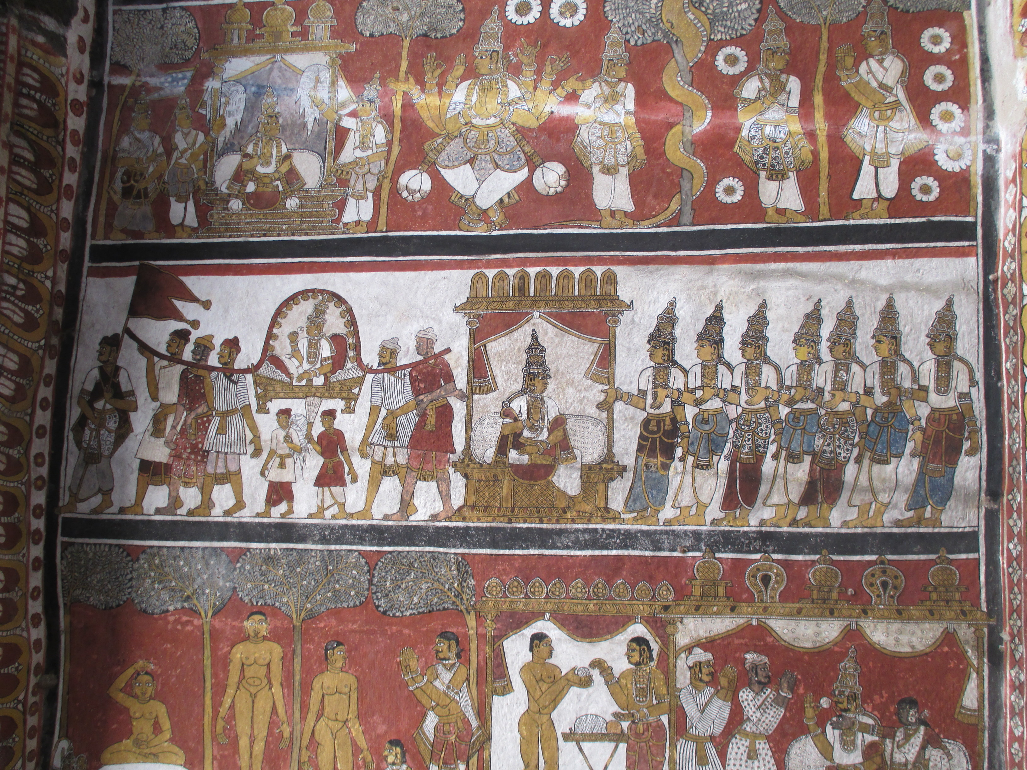 Tiruparuthikundram